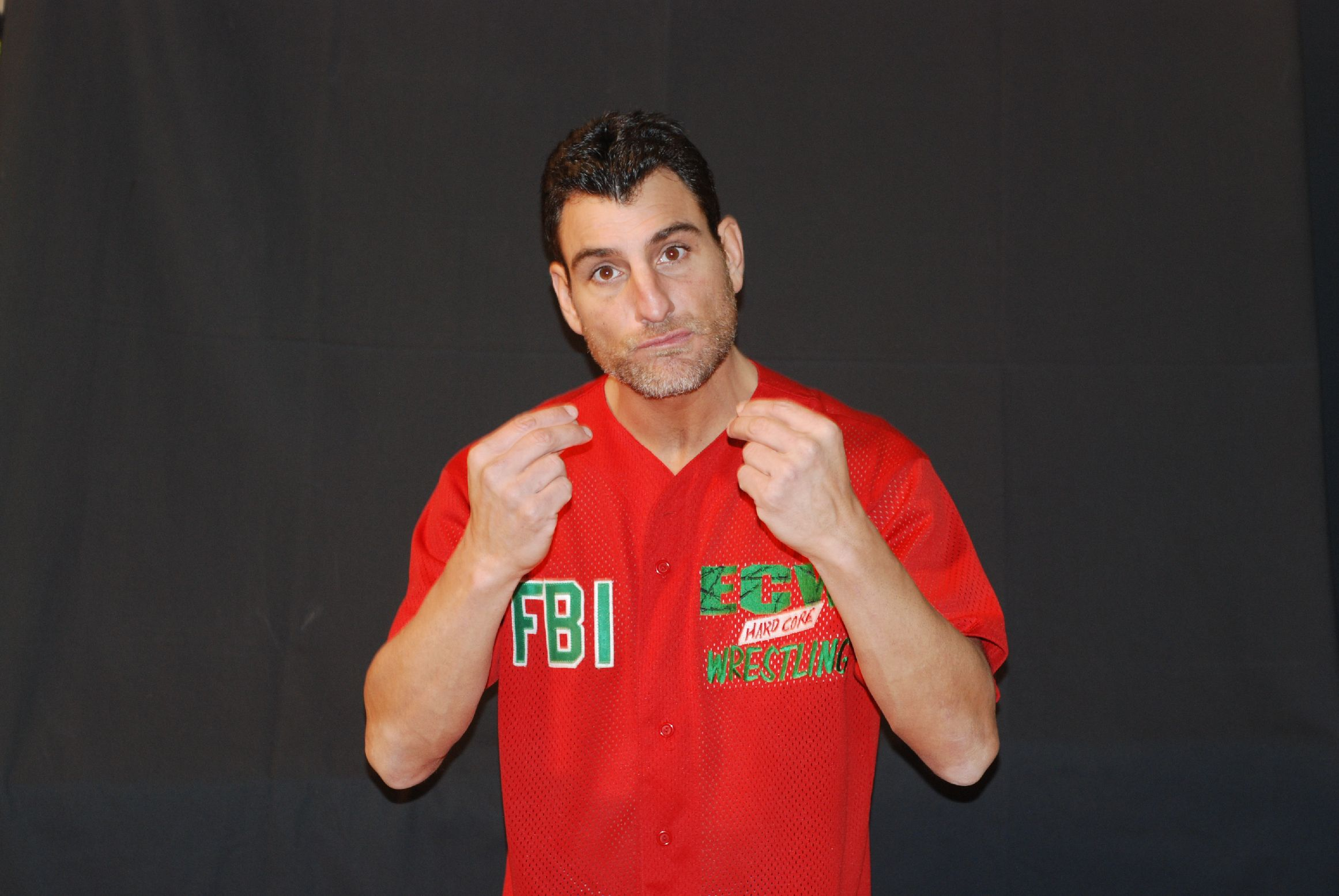 ECW Original and WWE Superstar, Nunzio in 2010.